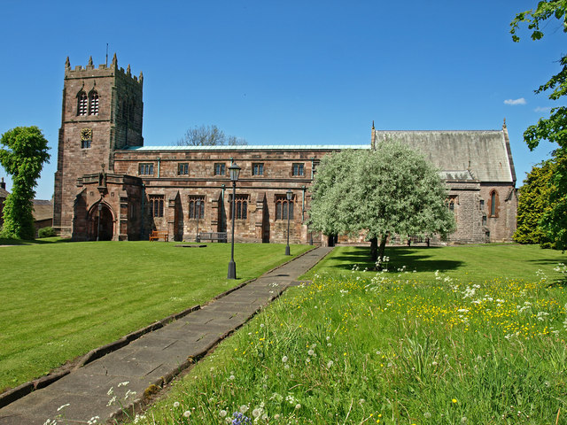 The Parish Church Kirkby Stephen, Cumbria Well kept grounds, nice to see a part of the grass left to grow naturally and seed.